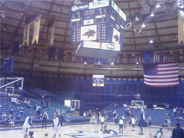 Players warm up as the crowd starts to filter into Worthington Arena for a Big Sky Conference basketball contest between Montana State and Sacramento State.